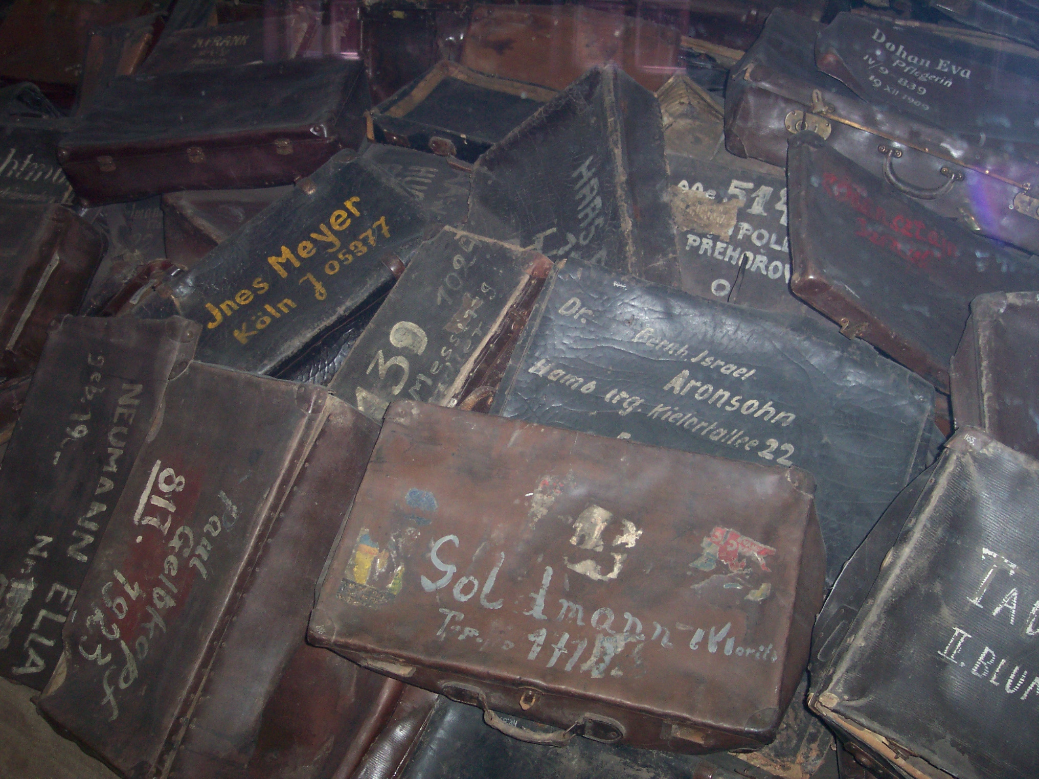 Exhibition Material Proofs of Crimes at Auschwitz I